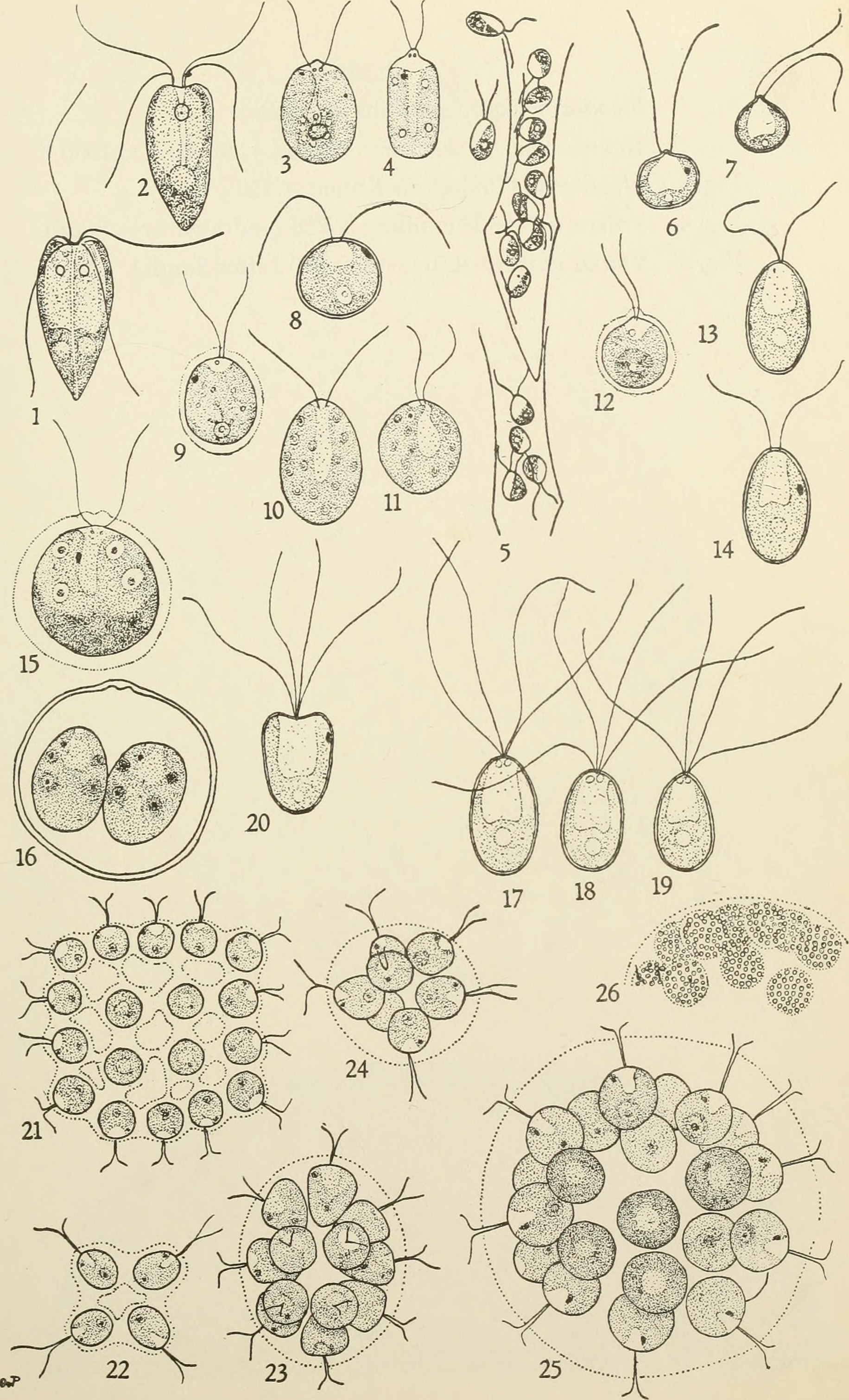 Title: Algae of the western Great Lakes area Year: 1962 (1960s) Authors: Prescott, G. W. (Gerald Webber), 1899- Subjects: Algae -- Lake States; Algae Publisher: Dubuque, Iowa, W. C. Brown Co Text Appearing Before Image: ' Text Appearing After Image: '